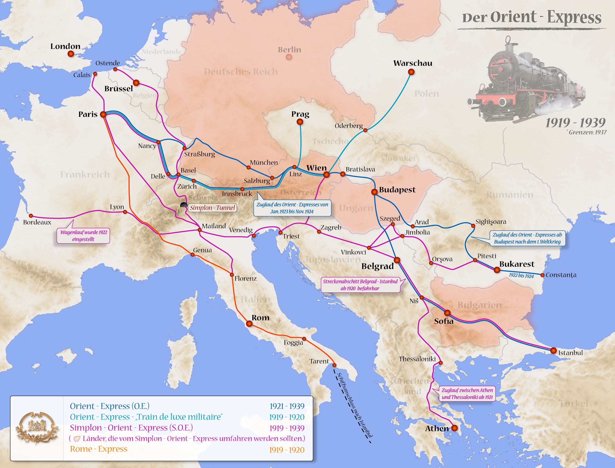 Route of the Orient Express from 1919 to 1939.